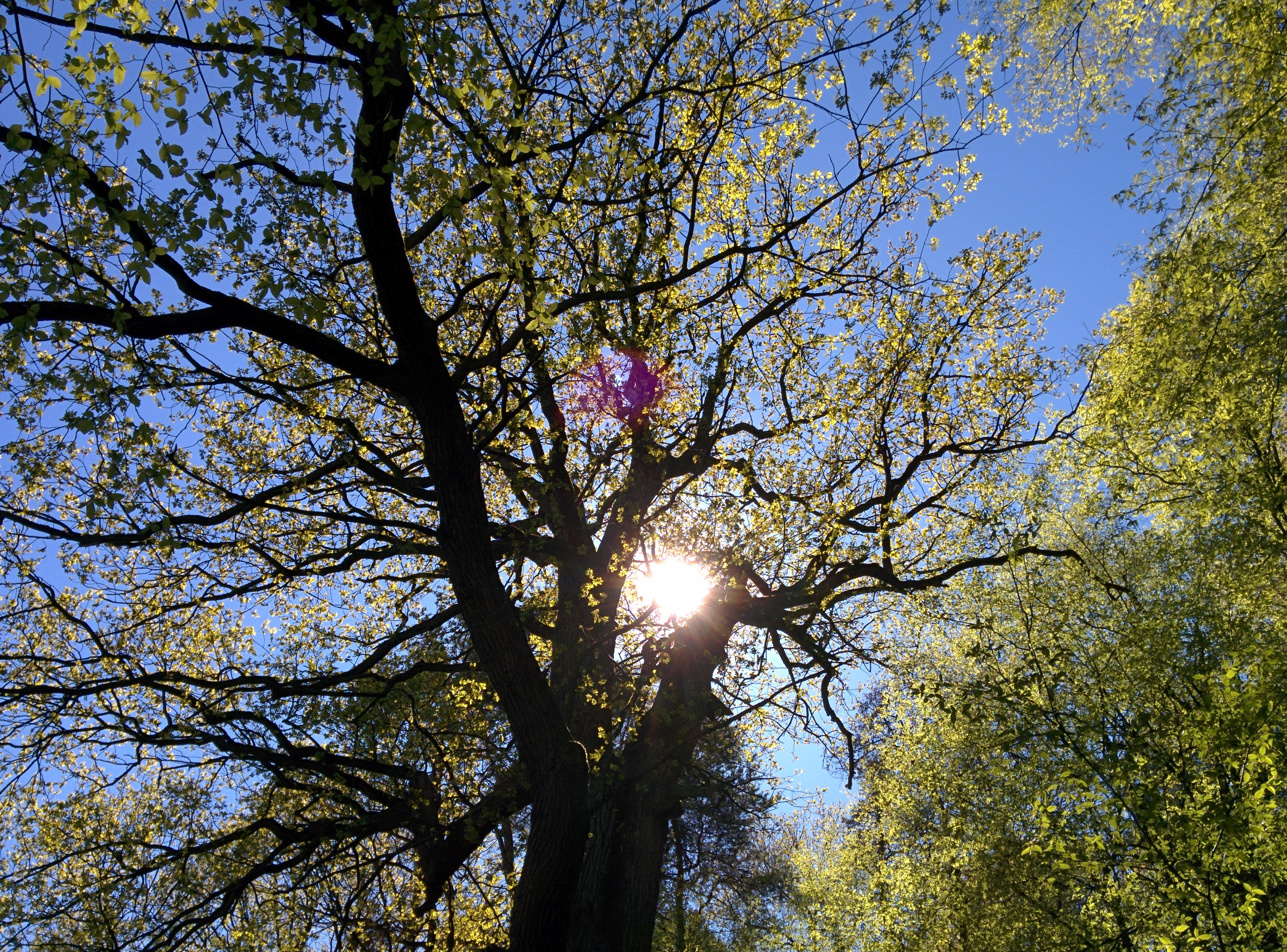 Breitefenn nature reserve near Oderberg-Neuendorf, Brandenburg, Germany